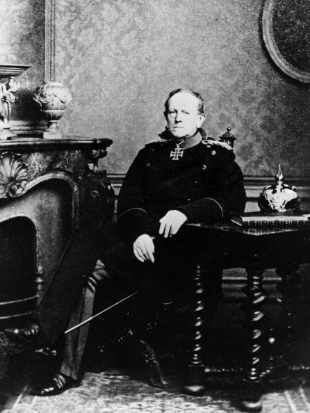 Count Helmuth von Moltke circa 1865